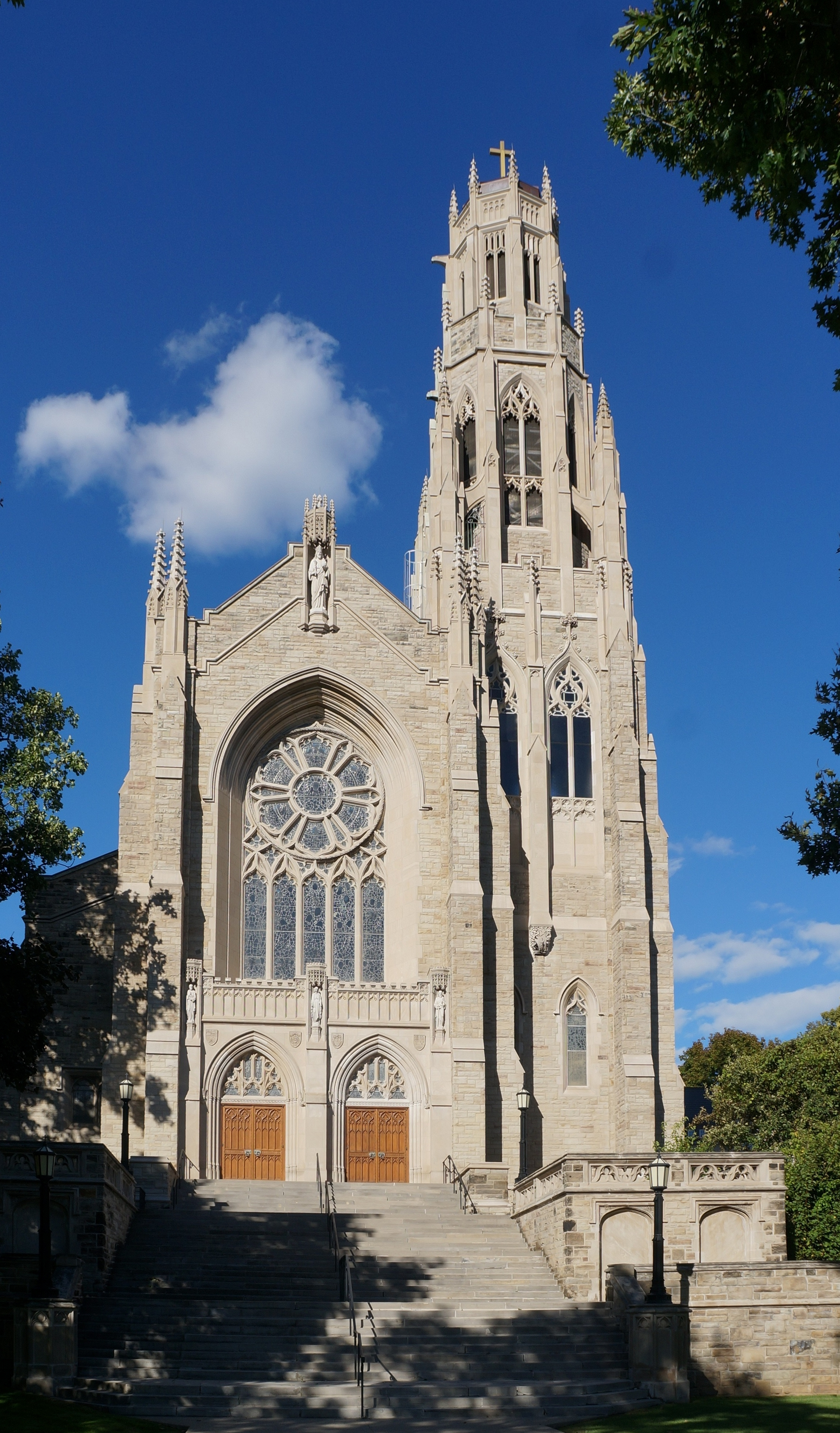 Exterior of the Cathedral Basilica of Christ the King, following a restoration that was completed in 2017